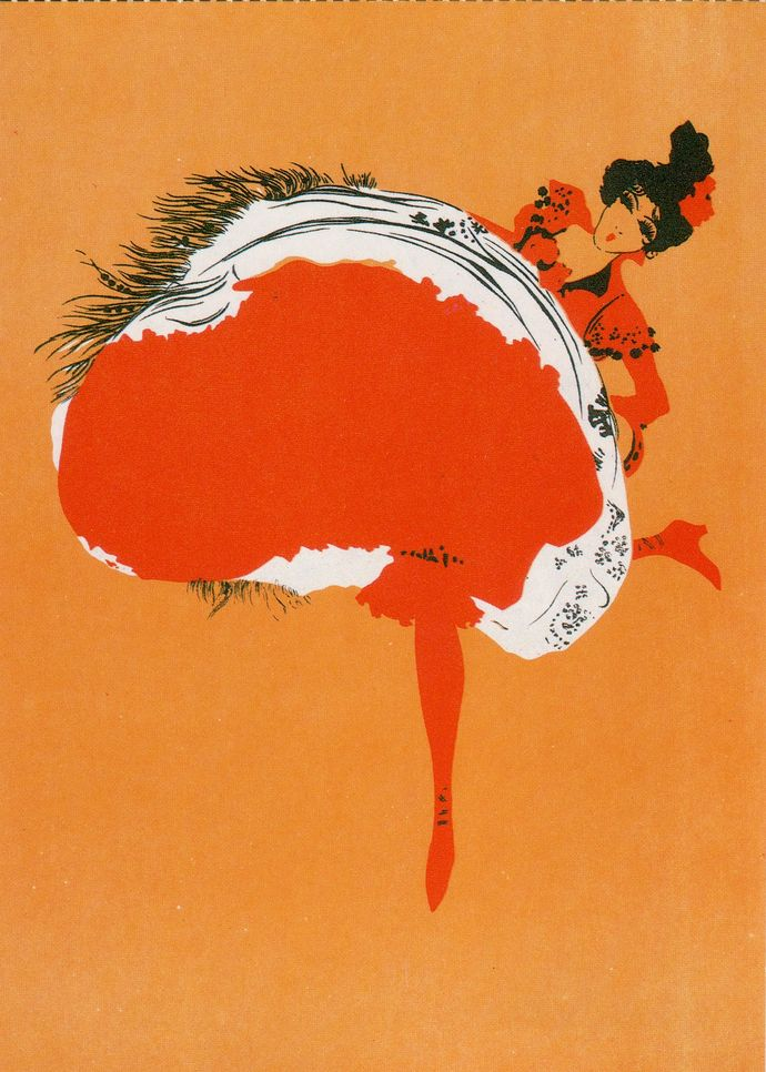 Maurice Biais, Winter-Garten Saharet, lithography, detail, poster without location.